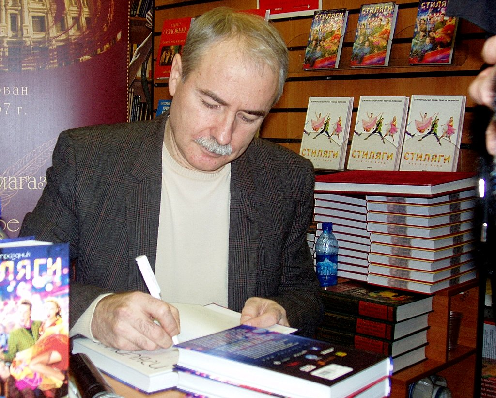 Russian screenwriter Yury Korotkov on presentation of his book